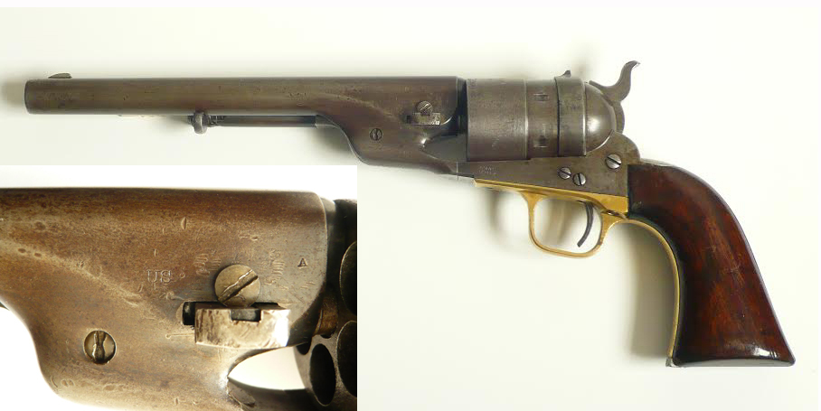 Colt Army 1860 Conversion